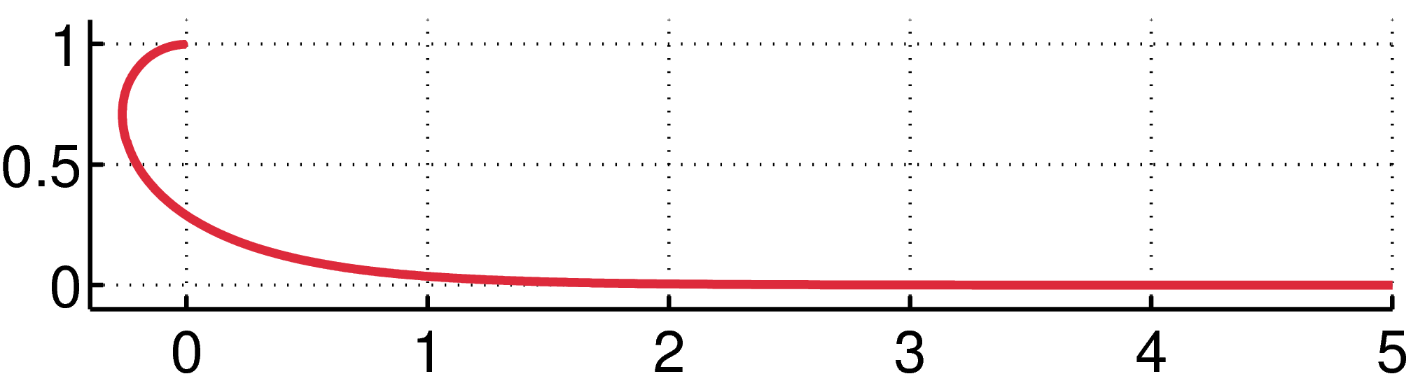 Illustration of Syntractrix